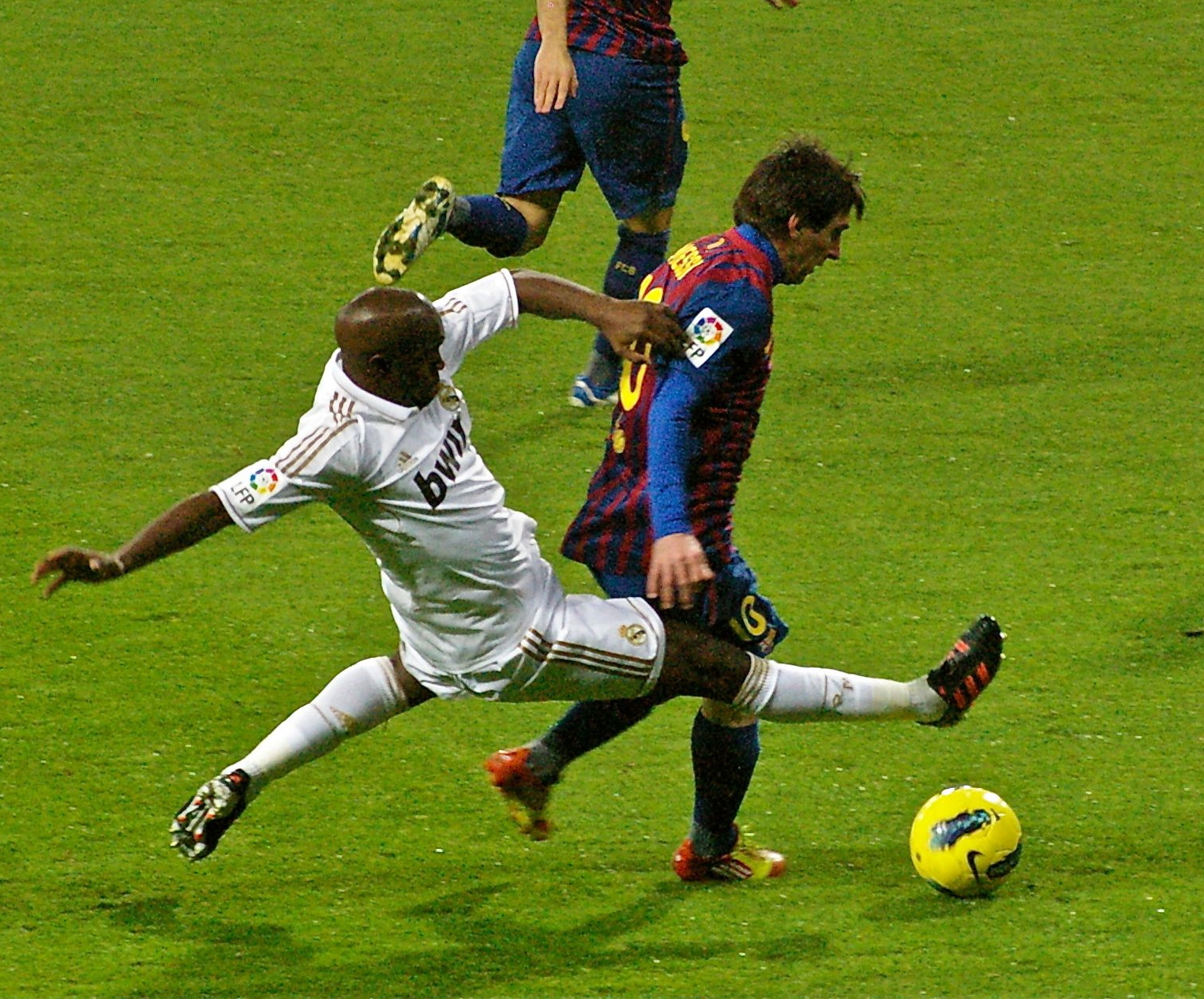 Lass Diarra tackles Lionel Messi during Real Madrid - Barcelona at Santiago Bernabeu, december 2011